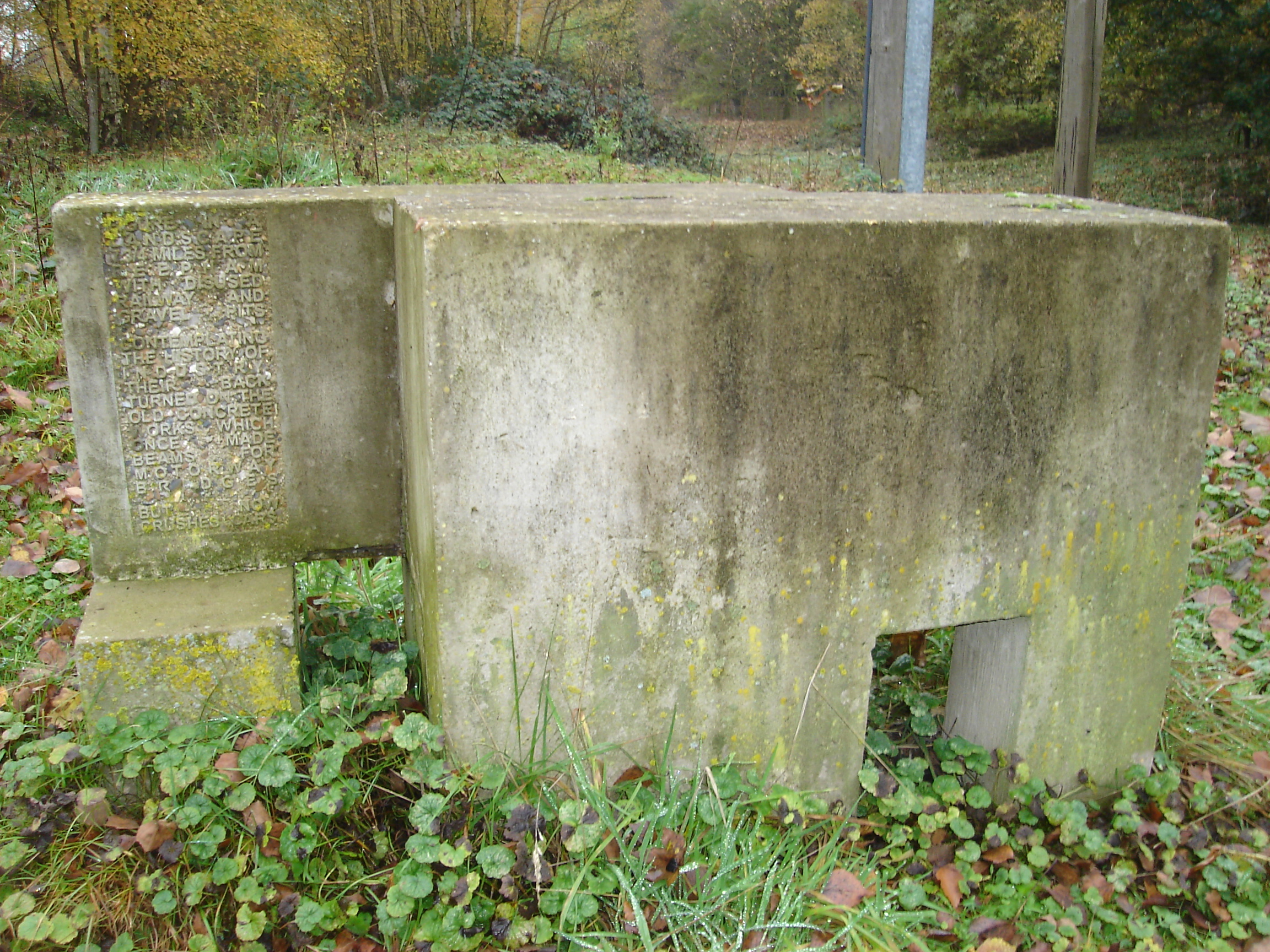 Picture of concrete sculpture at Marriott's Way, Lenwade, Norfolk